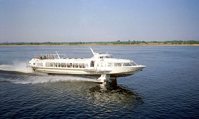 "VOSKHOD-24" on Volga river near Balakhna (2002). Project 352, type "Voskhod"